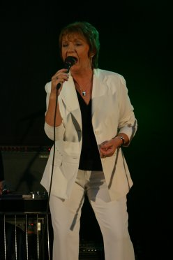 Irish singer Philomena Begley singing in concert in Nashville, Tennessee, USA